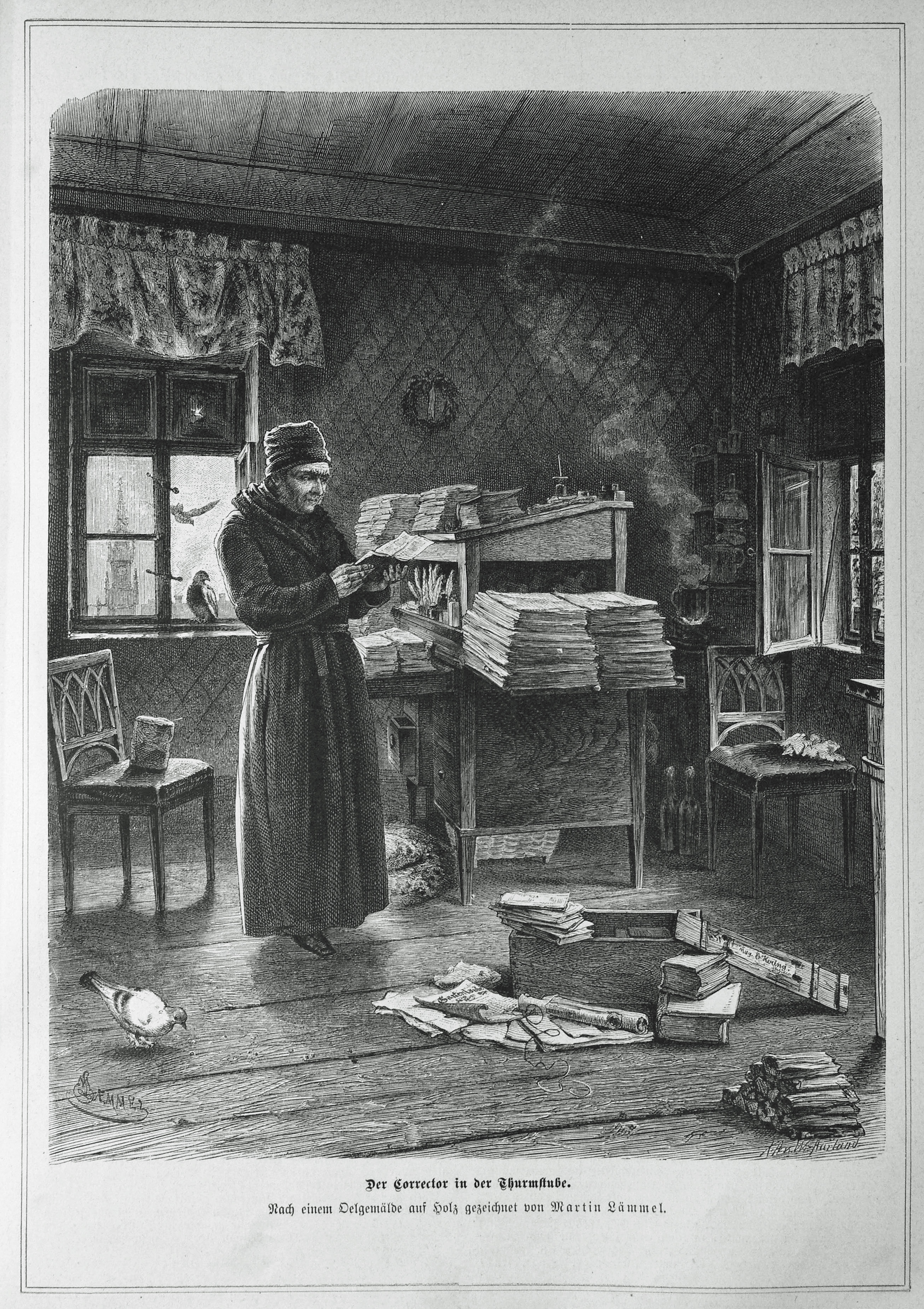 Page 269 from journal Die Gartenlaube for 1882. Extracted image (if any): File:Die Gartenlaube (1882) b 269.jpg - hi res, ~2.5 MB.